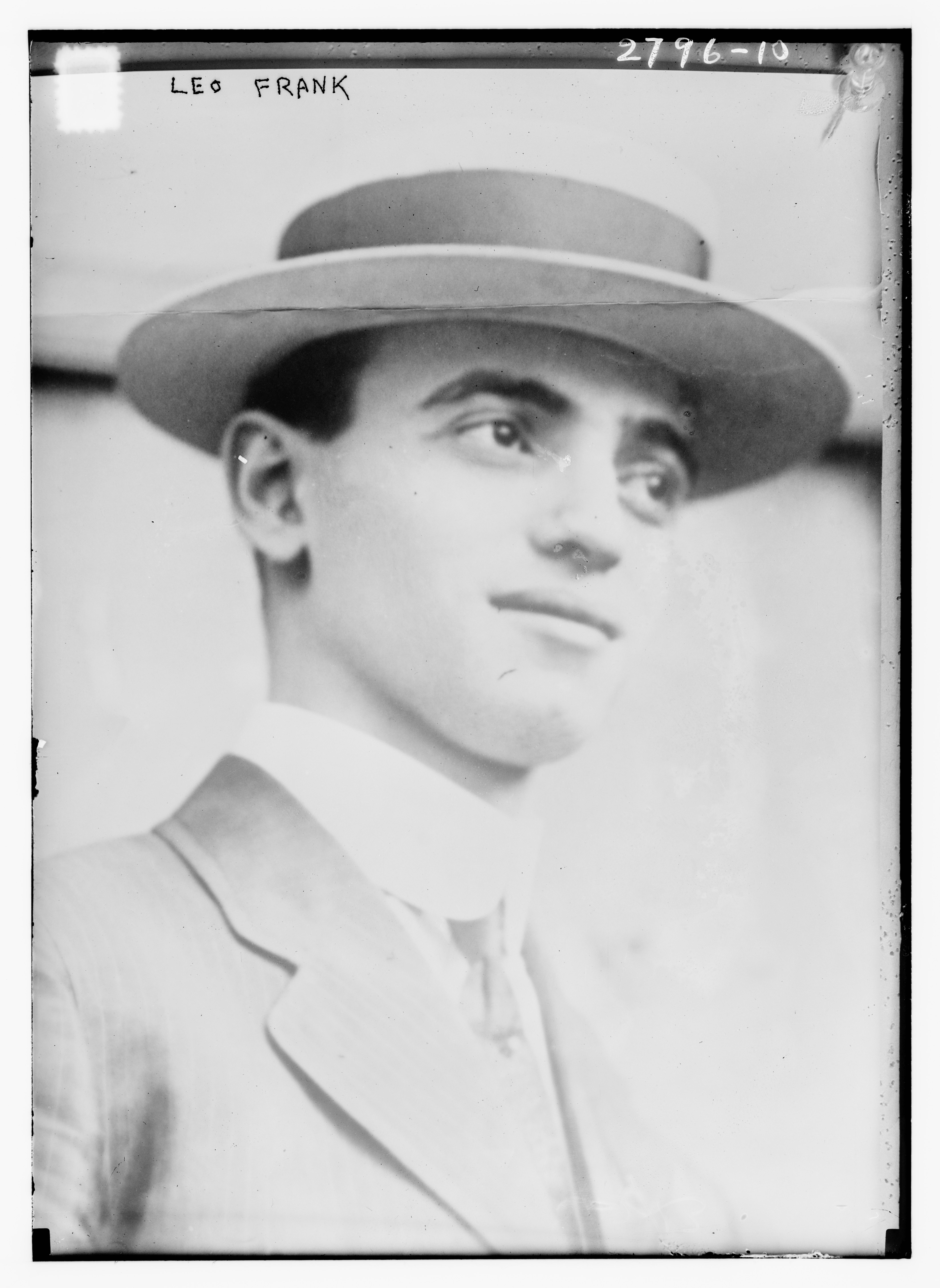 Title: Leo Frank Abstract/medium: 1 negative : glass ; 5 x 7 in. or smaller.